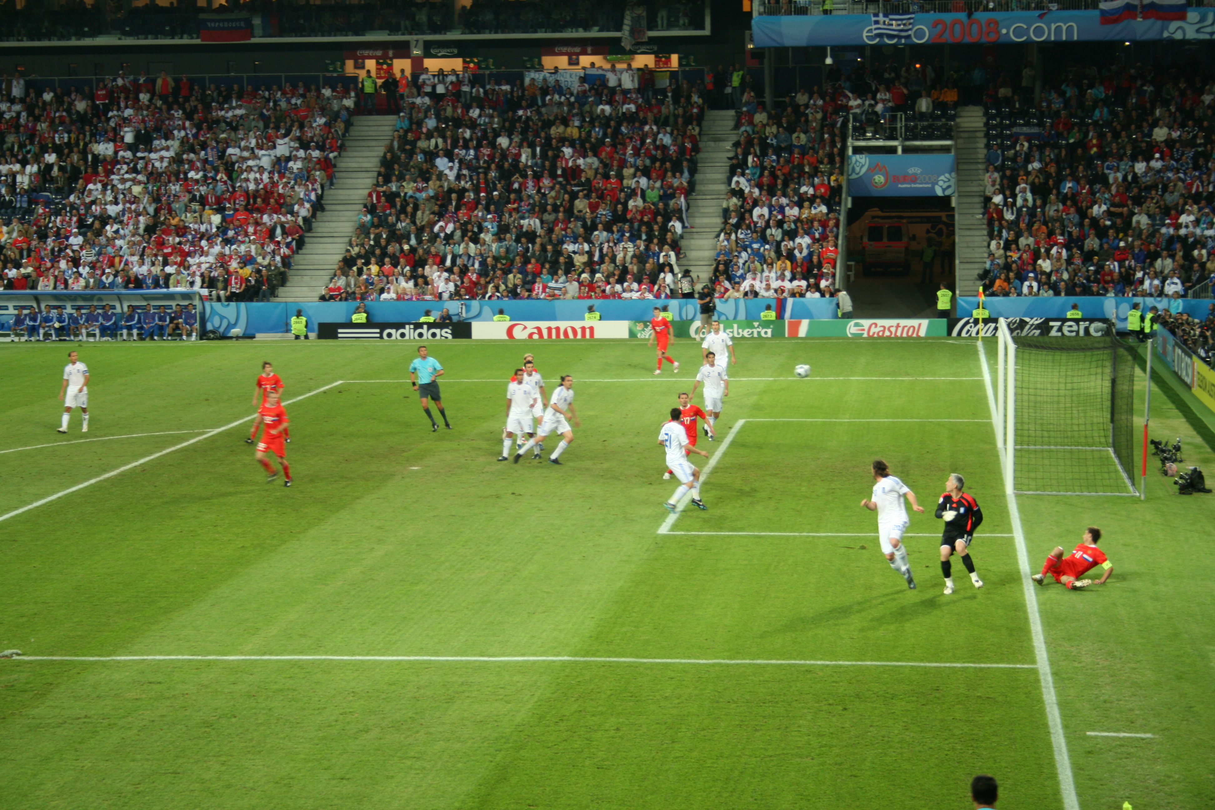 Goal by Zyryanov (Russia - Greece, EURO 2008)